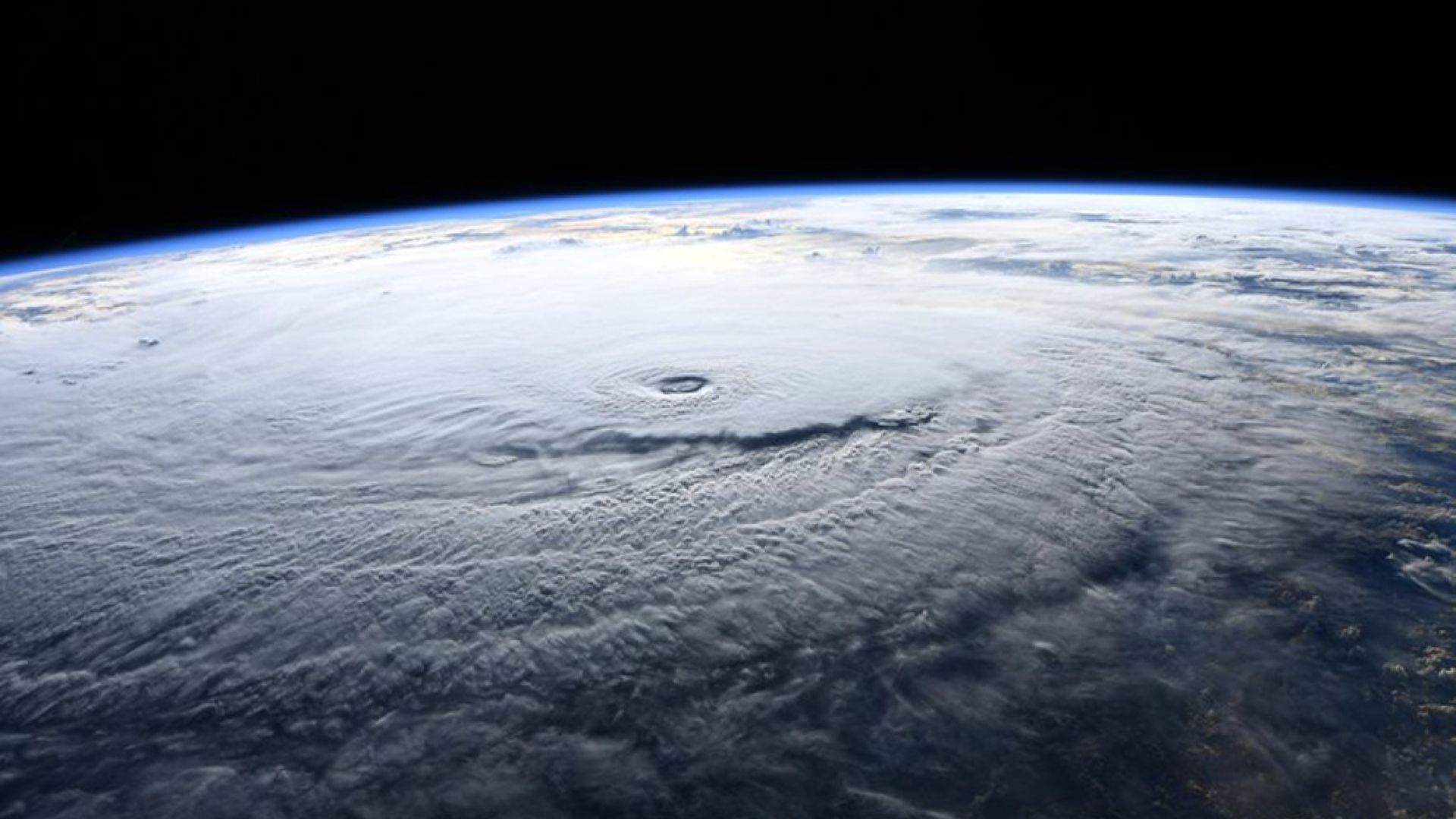 Hurricane Lane as seen from the International Space Station on Aug. 22.